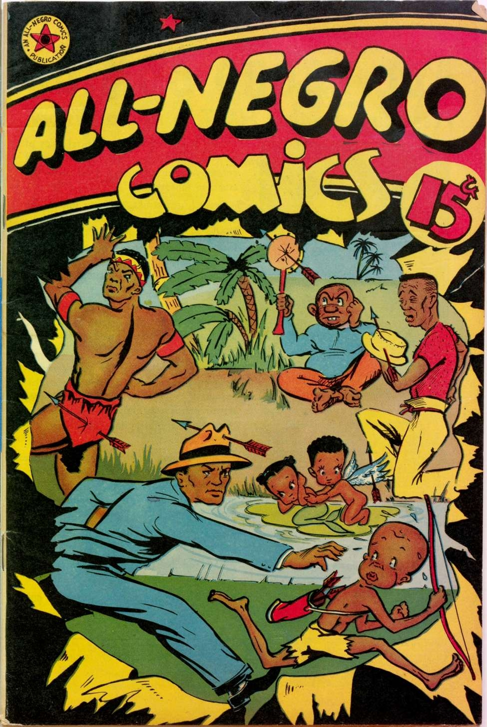 Cover, All-Negro Comics #1 (1947). Defunct publisher. Cover artist unknown.